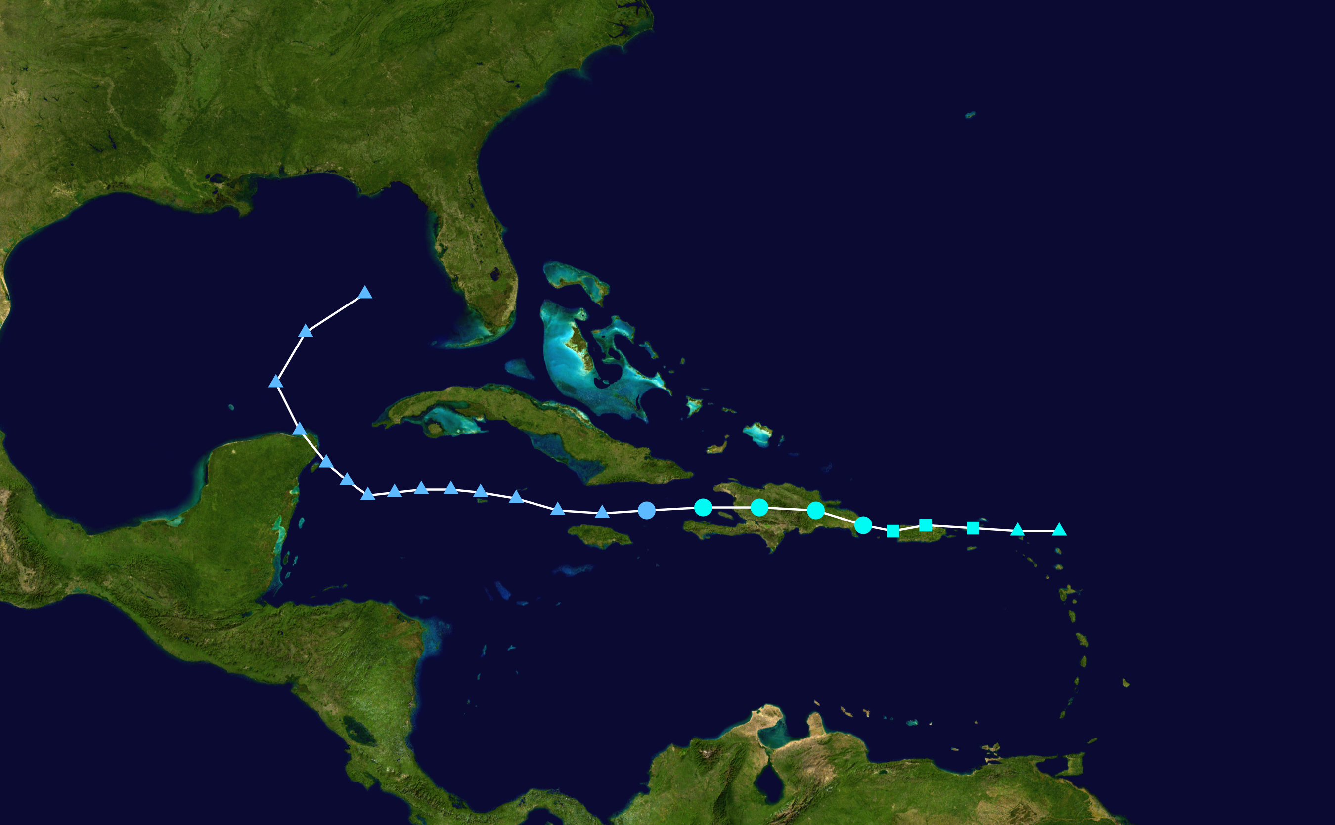 Track map of Tropical Storm Olga of the 2007 Atlantic hurricane season. The points show the location of the storm at 6-hour intervals. The colour represents the storm's maximum sustained wind speeds as classified in the Saffir–Simpson scale (see below), and the shape of the data points represent the nature of the storm, according to the legend below. Saffir–Simpson scale Tropical depression≤38 mph≤62 km/h Category 3111–129 mph178–208 km/h Tropical storm39–73 mph63–118 km/h Category 4130–156 mph209–251 km/h Category 174–95 mph119–153 km/h Category 5≥157 mph≥252 km/h Category 296–110 mph154–177 km/h Unknown Storm type Tropical cyclone Subtropical cyclone Extratropical cyclone / Remnant low / Tropical disturbance / Monsoon depression